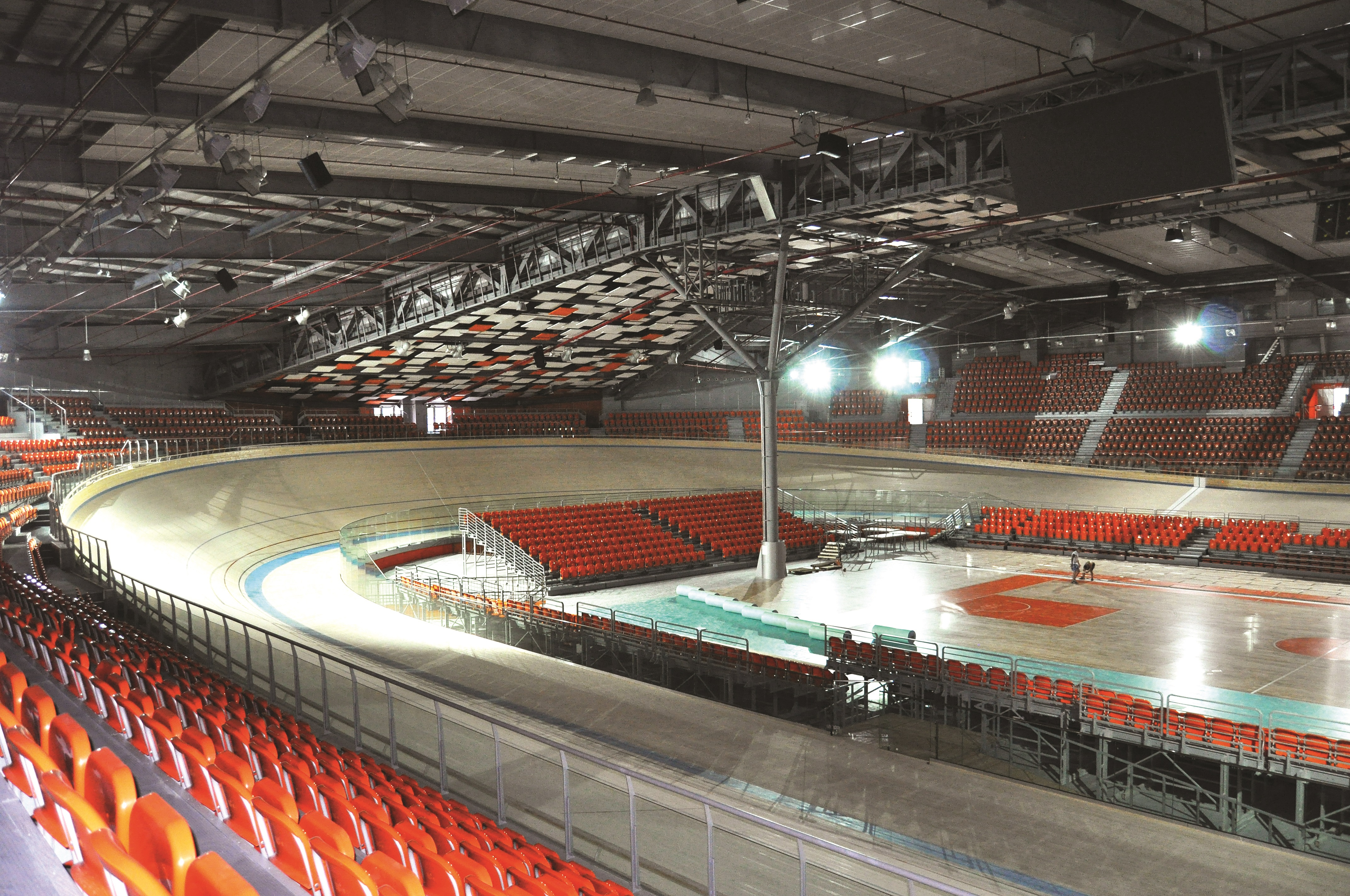 Plovdiv velodrome interior